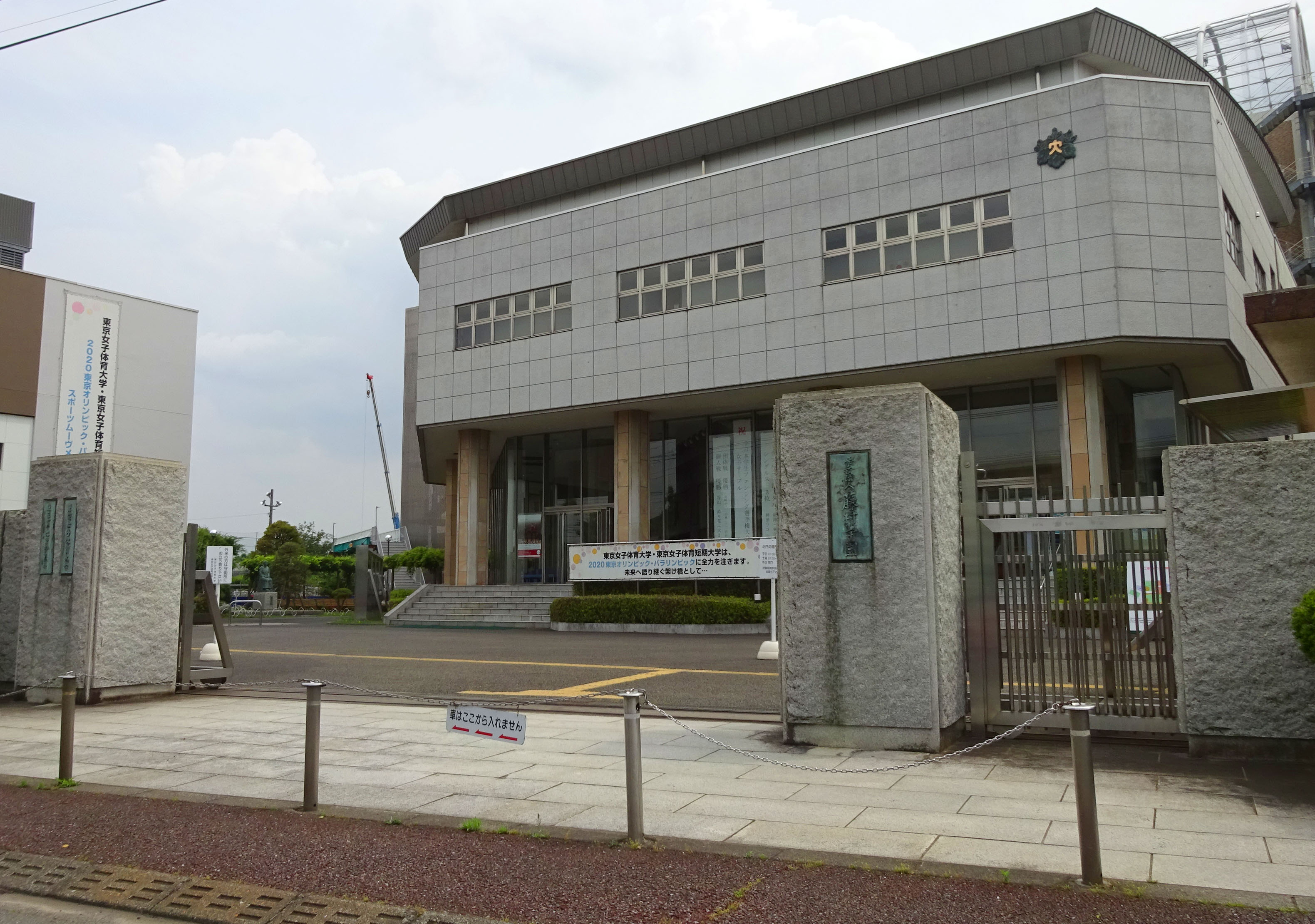 Tokyo Women's College of Physical Education